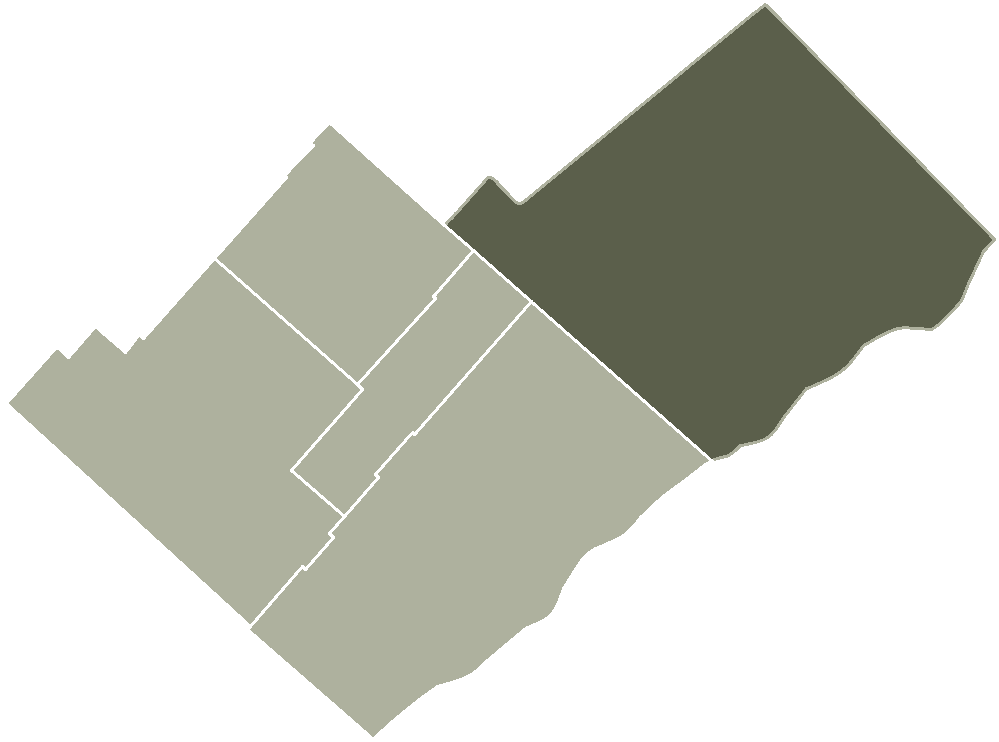 Location of the "Campo de Mayo" locality in the "San Miguel Partido" of the "Greater Buenos Aires", Argentina.